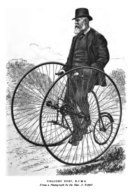 Tricyle riding by Viscount Bury, co-author of the volume "Cycling", of Badminton Library